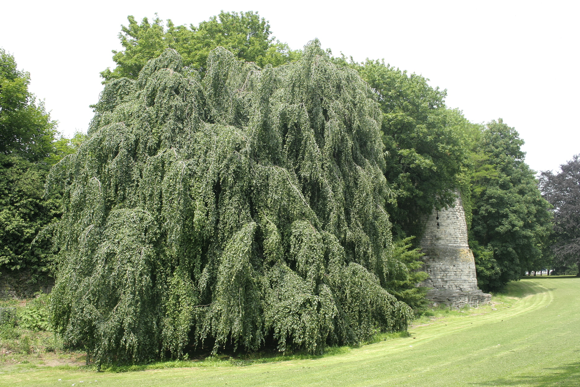 Tournai (Belgium), one of the Marvis (Second surrounding wall - XIIIth century) and two remarkable weeping beeches. The 12th century Saint Jean towers are 150 meters further on.